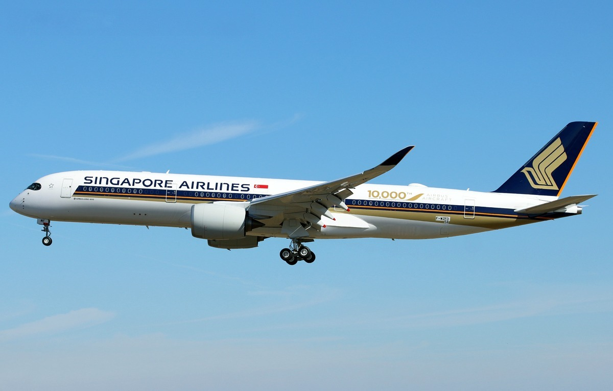 Singapore Airlines Airbus A350-941 F-WZFD to 9V-SMF. This aircraft was delivered to Singapore Airlines on 14 October 2016, and is the 10,000th aircraft to be delivered by Airbus.